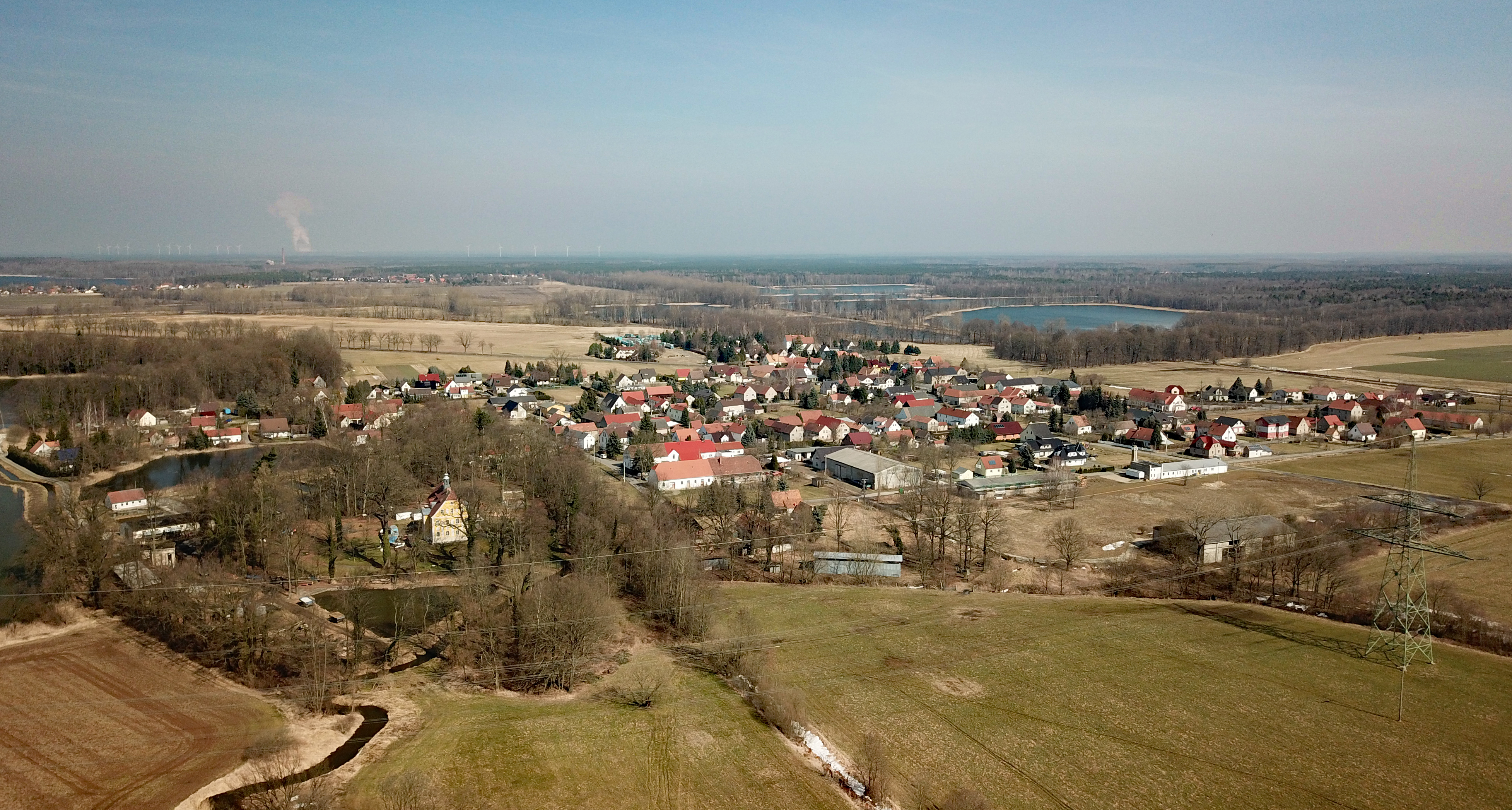 Wartha (Königswartha, Saxony, Germany) Hornjoserbsce: Powětrowy wobraz Stróže pola Rakec.